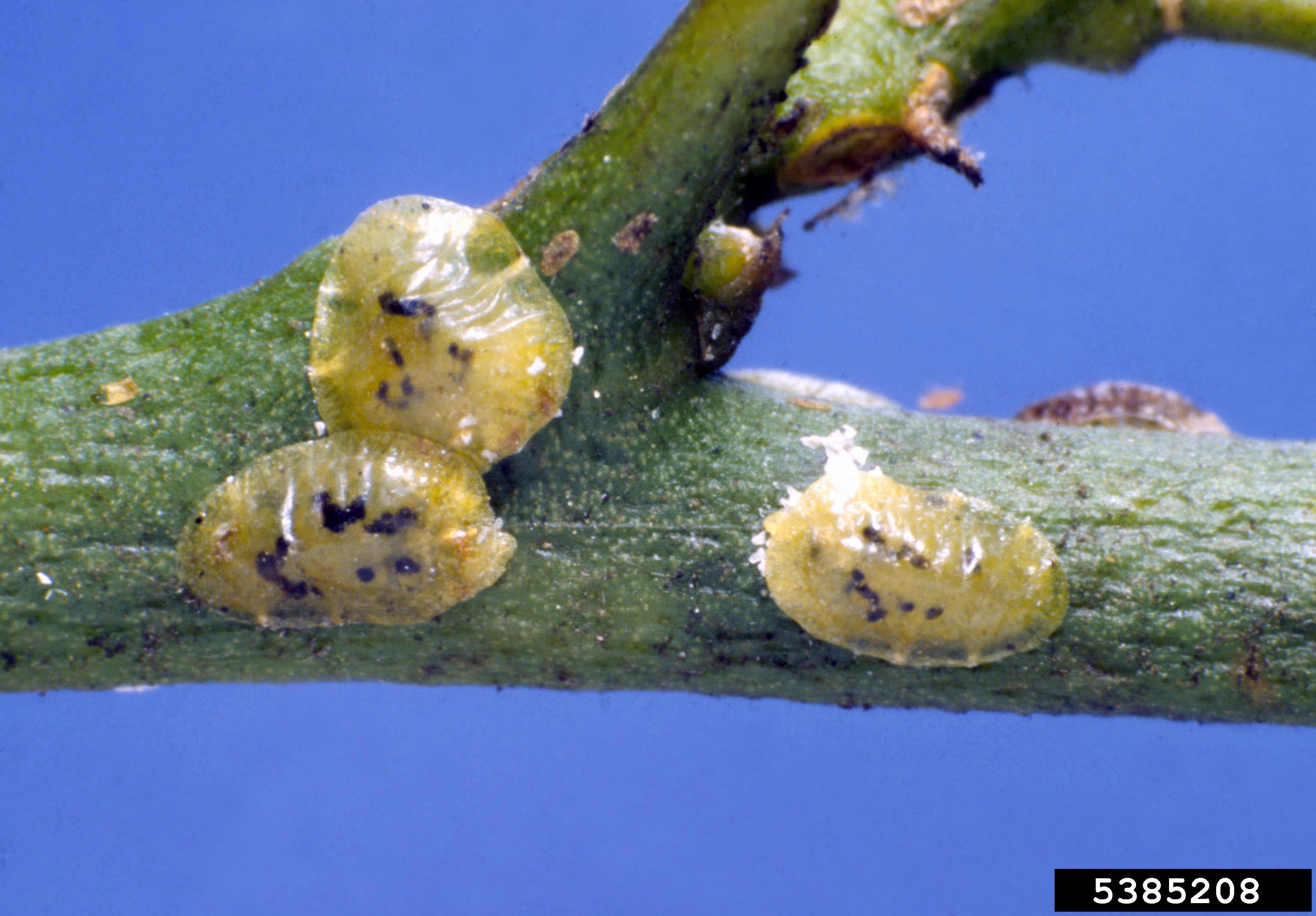 Green scale, Coccus viridis, on twig.